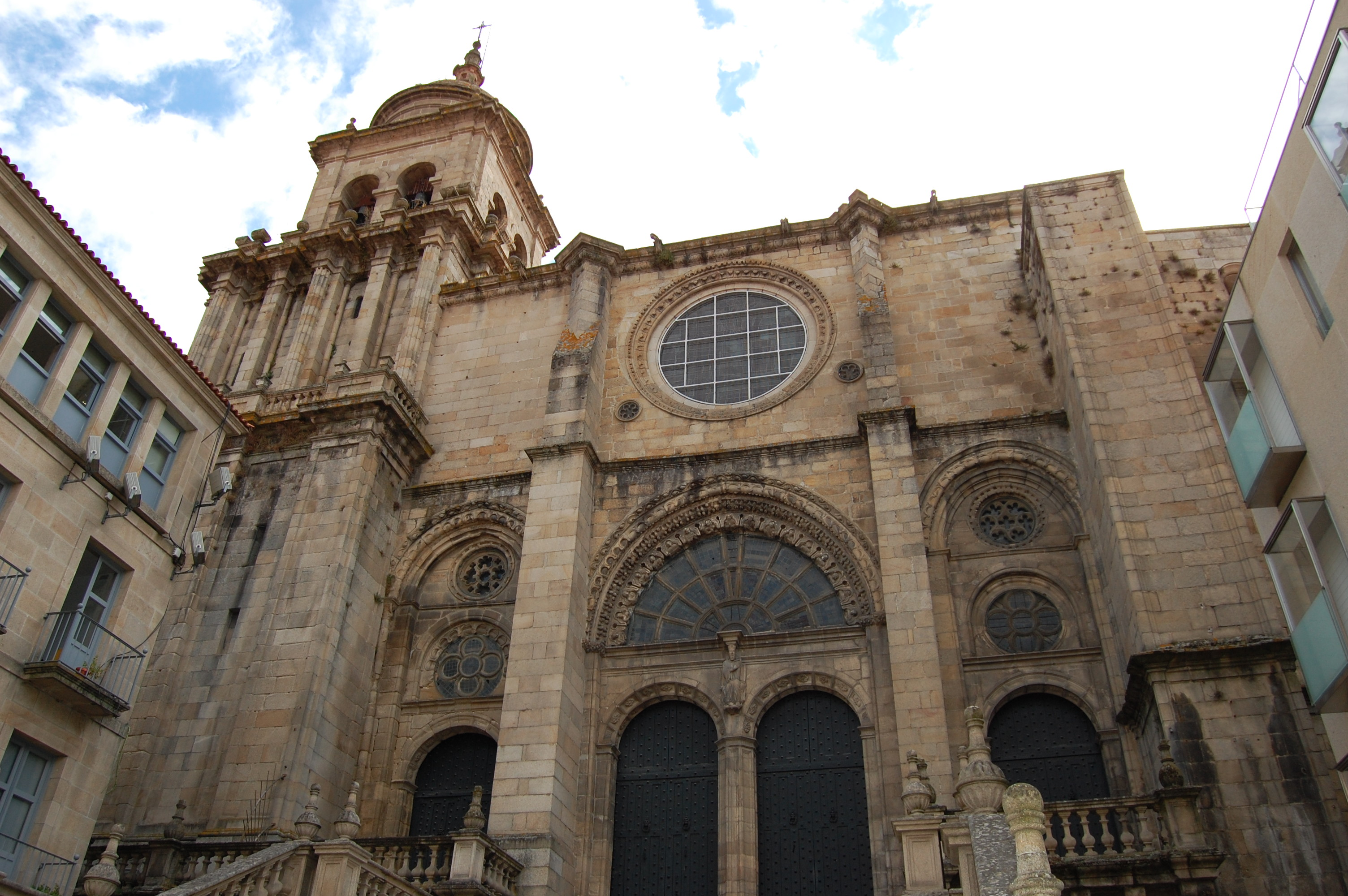 CATEDRAL ORENSE Ourense Cathedral Native nameCatedral de OrenseLocationOurense, Galicia, (Spain)Coordinates42° 20′ 11.2″ N, 7° 51′ 46.3″ W EstablishedMiddle AgeWeb page control : Q1361548 VIAF: 147929516 LCCN: n91120839 BIC: RI-51-0000771 GND: 4814021-1 SUDOC: 101031556 WorldCat institution QS:P195,Q1361548